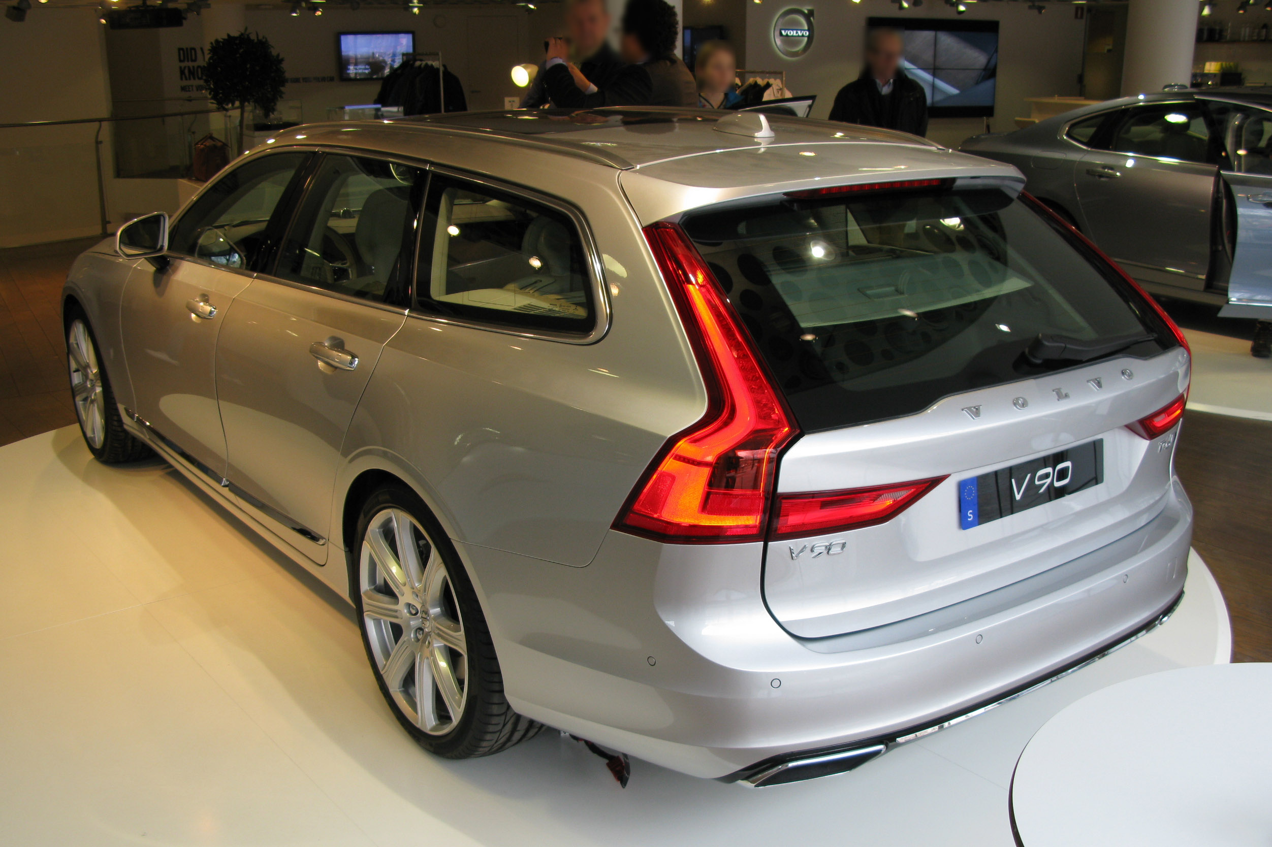 2016 Volvo V90 T6 Inscription